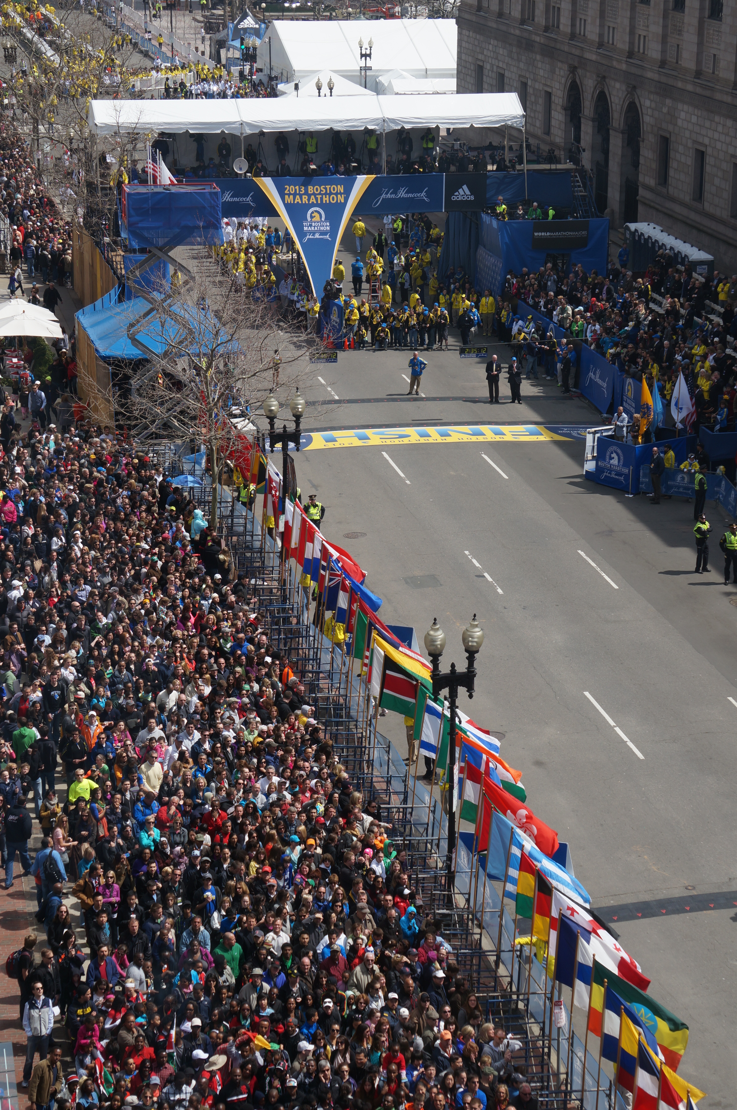 An image of the crowd near the finish line of the 2013 Boston Marathon, allegedly near the point of one of the two explosions, taken from a nearby building shortly before the blast.